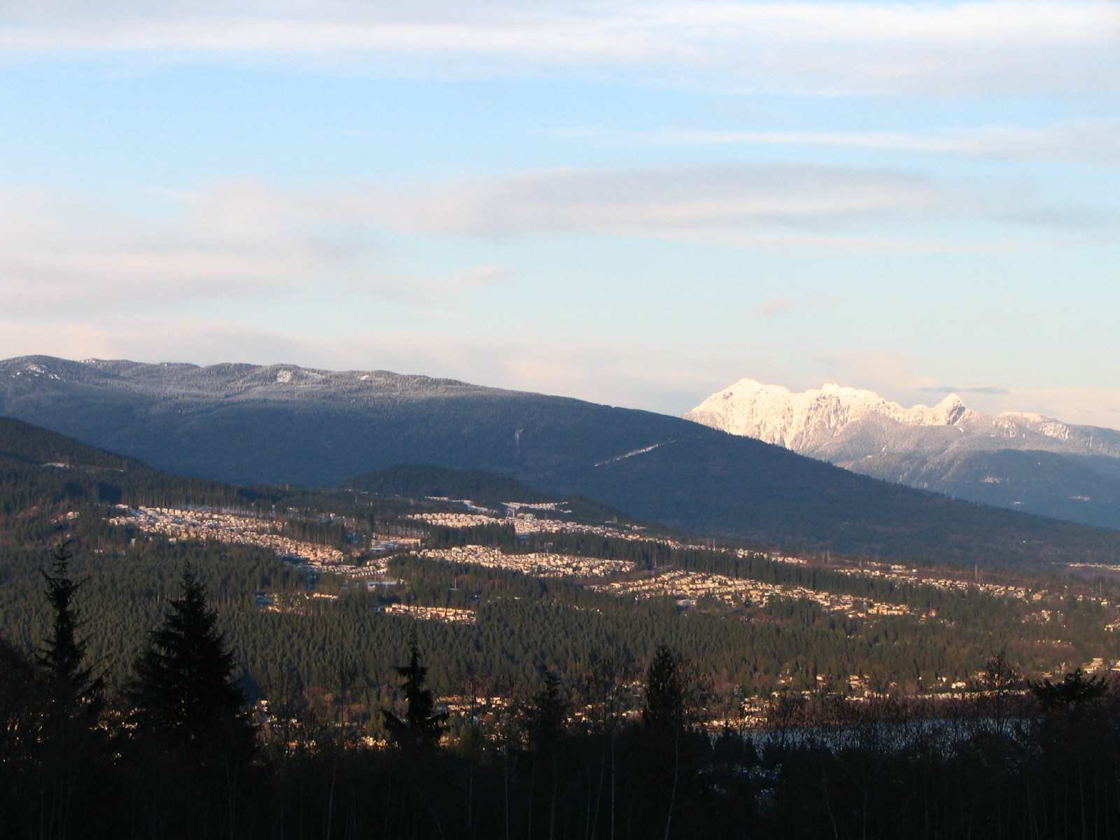 This image was created by me, Flying Penguin of Pacific Spirit Photography of Burnaby, British Columbia, Canada.